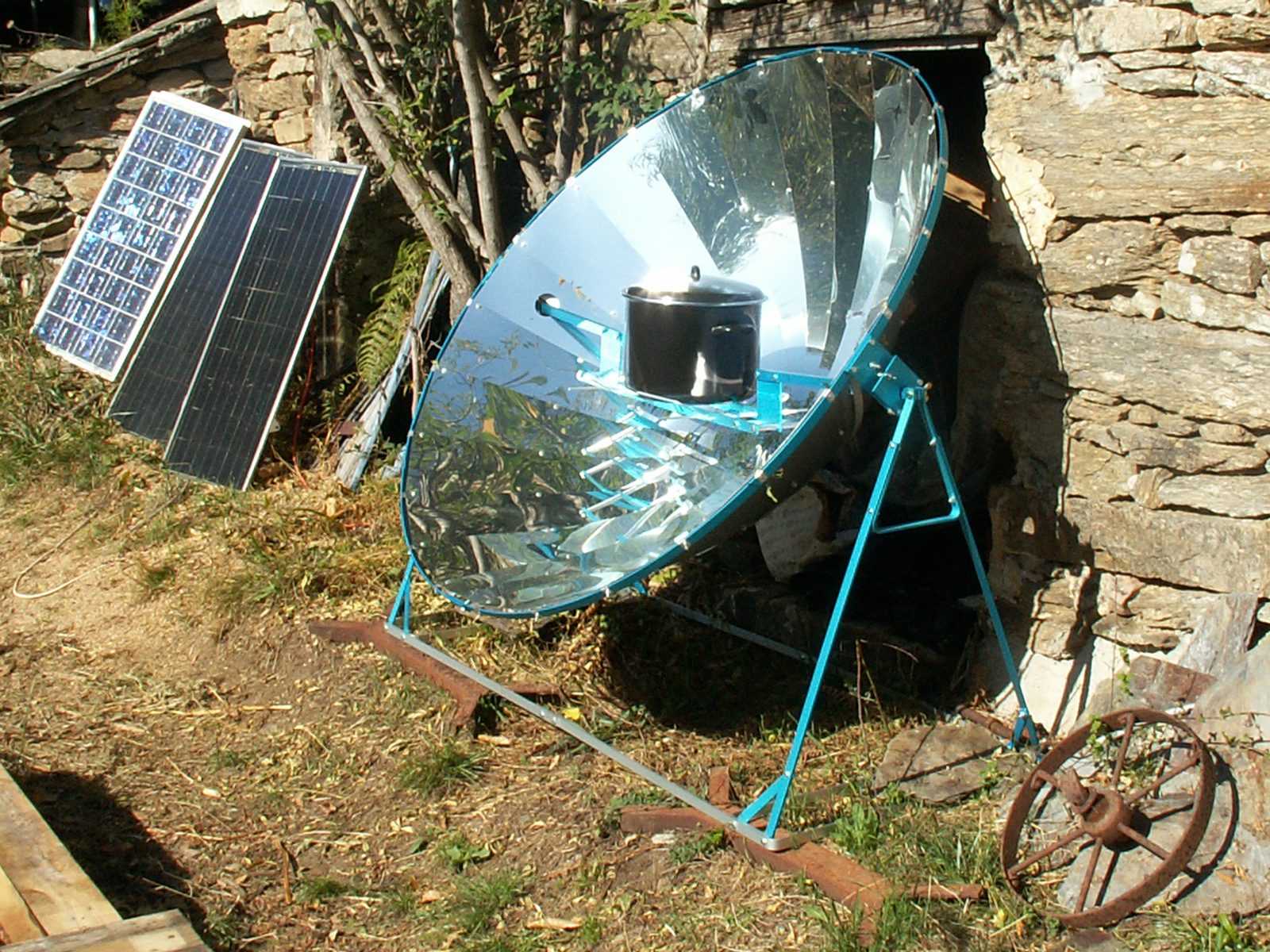 Solar cooker or solar barbecue Alsol 1.4 made in Spain: more information on